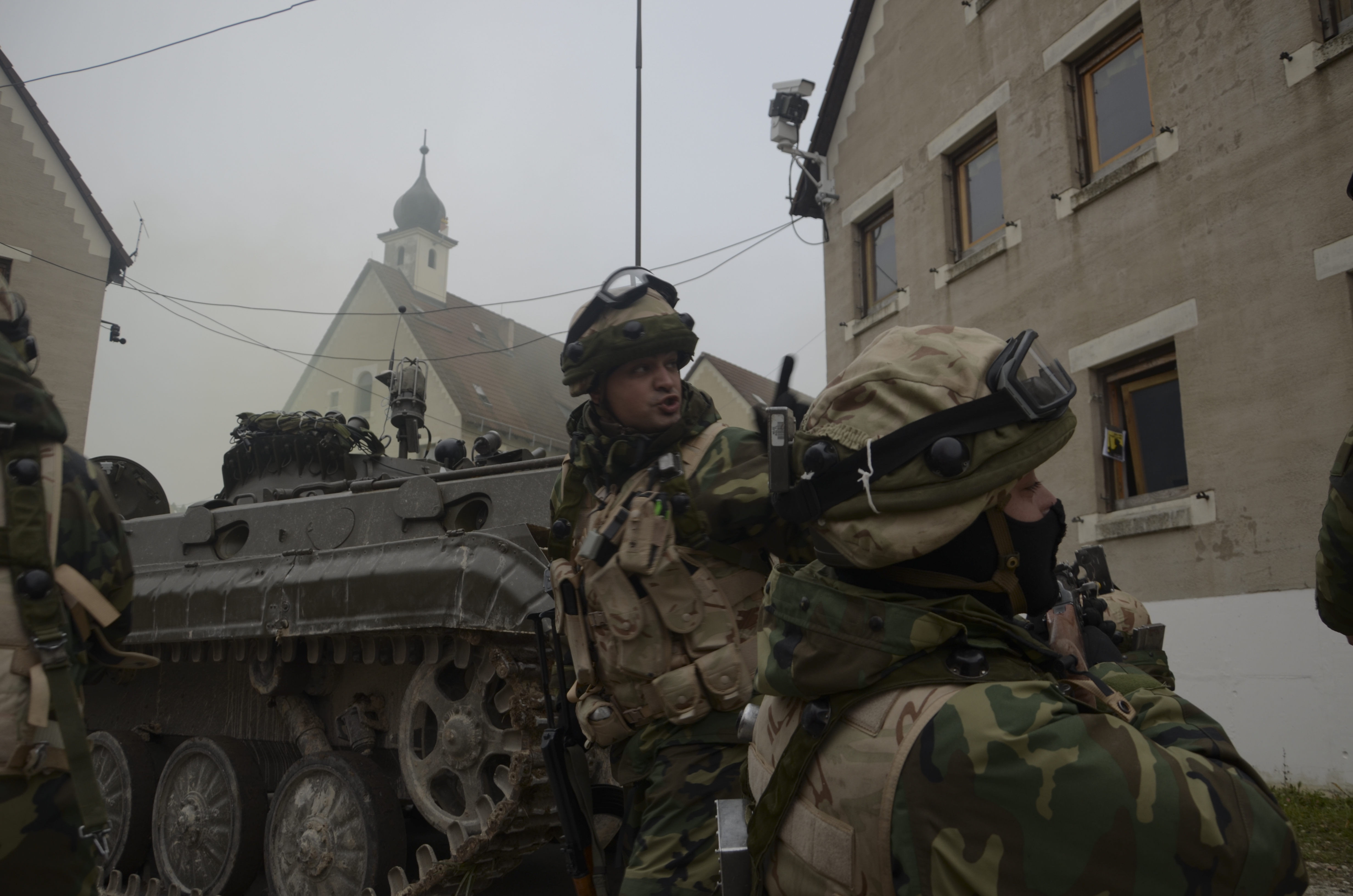 A Bulgarian soldier with the 61st Mechanized Infantry Brigade calls out enemy movement during a decisive action training environment exercise at the Joint Multinational Readiness Center in Hohenfels, Germany, Oct. 25, 2012, during Saber Junction 2012. Saber Junction is a U.S. Army 2nd Cavalry Regiment-led exercise designed to prepare U.S. and international partner forces for a NATO deployment to Afghanistan.